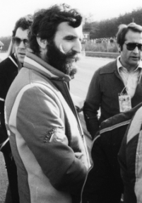 Austrian (by passport)/German (by racing licence) racing driver Harald Ertl pictured during a Touring car race in 1977 at Zolder in Belgium. Scan of a black and white print.